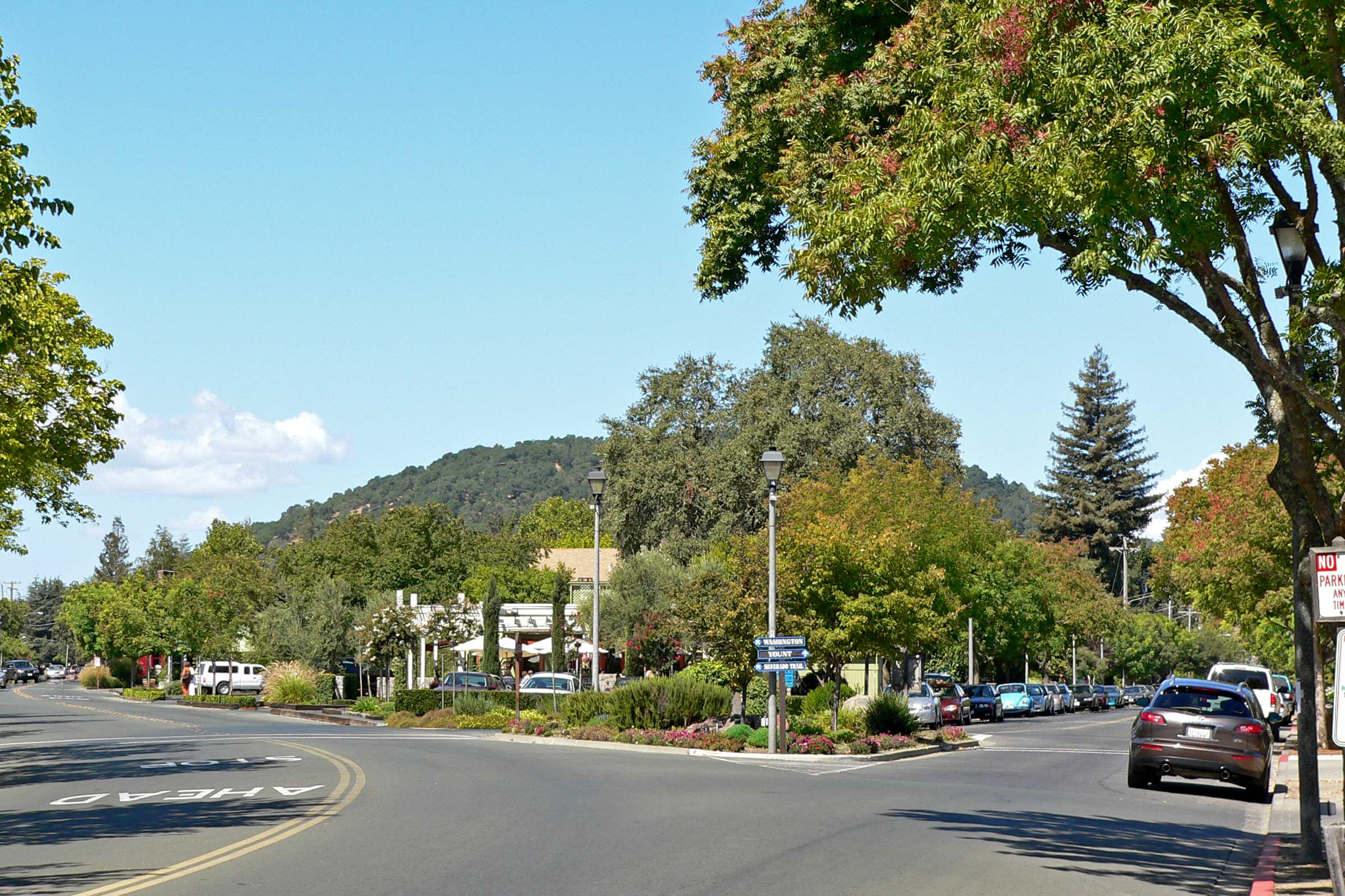 Photo of fork in road, Yountville, California